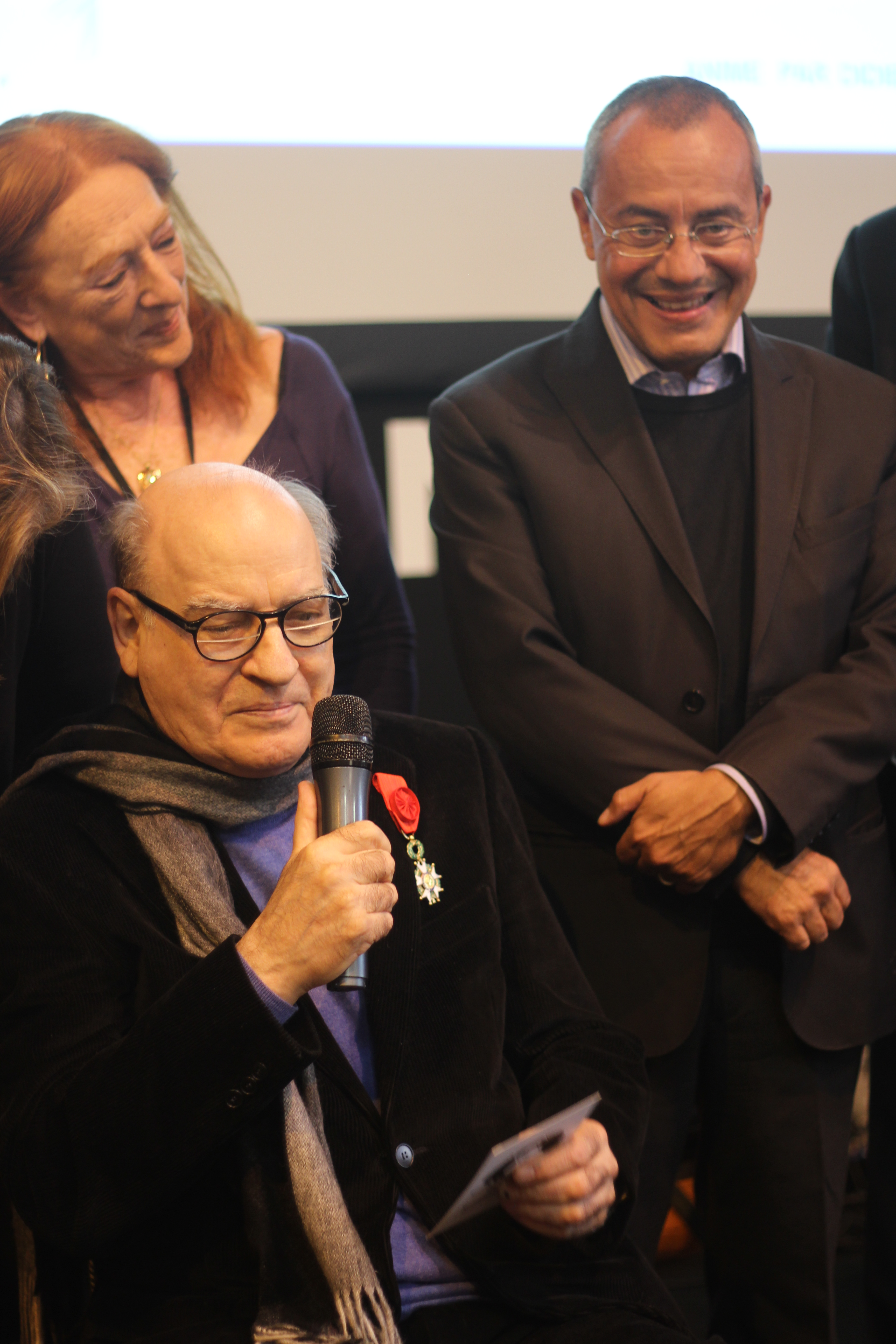 Paris Book Fair, 21-24 March 2014.